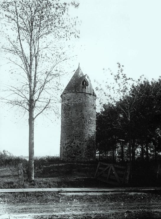 Photograph, Old mill, Notre Dame Street, Pointe-aux-Trembles, QC, about 1900, N. M. Hinshelwood. Silver salts on glass - Gelatin dry plate process - 21 x 16 cm